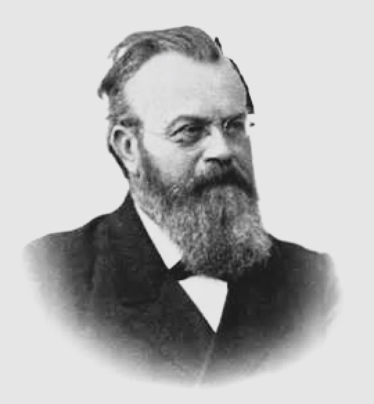 Hermann Walter Bion (1830–1909) was a reformed theologian and pedagogue from Switzerland who founded the first holiday colony for sickly children in 1876 and initiated a worldwide holiday colony movement in order to ensure a direct contact of children from cities who came from poor families to nature and fresh air.